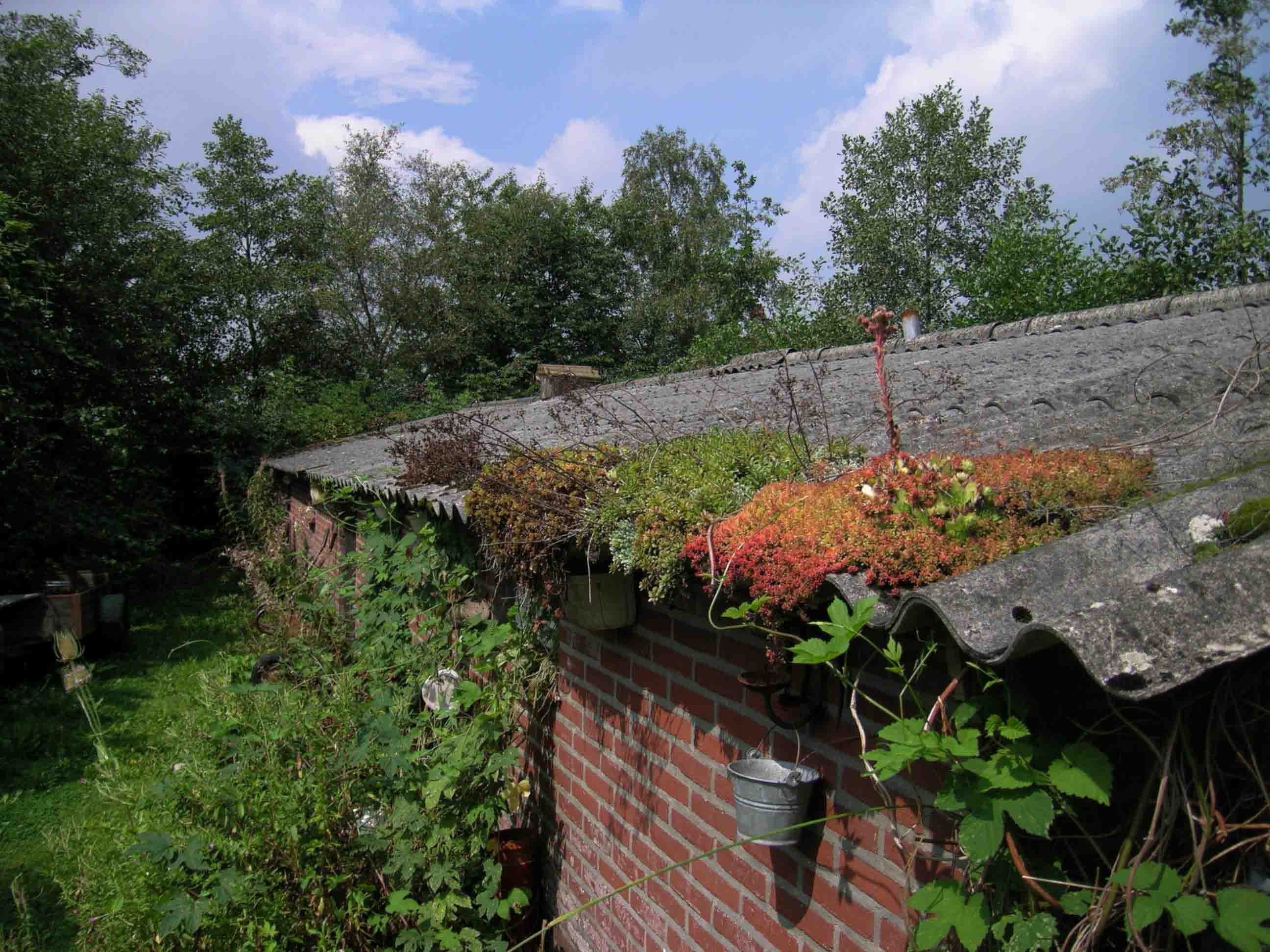 Photograph by Dirk van der Made (User:DirkvdM - for more photos see user:DirkvdM/Photographs). A barnroof in de Peel, Netherlands.